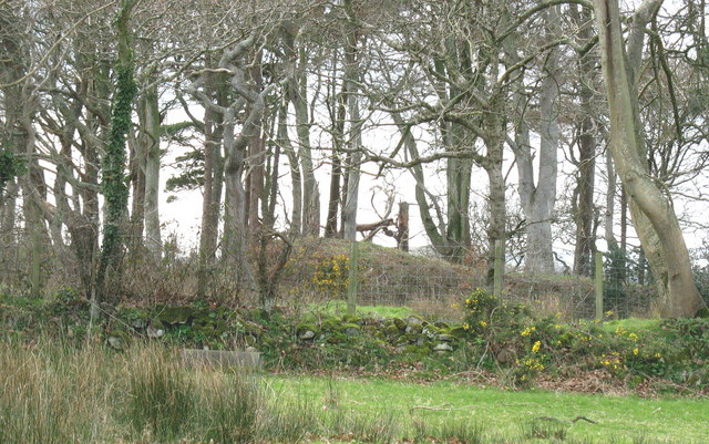 The Dinas-y-prif motte from the north 730195